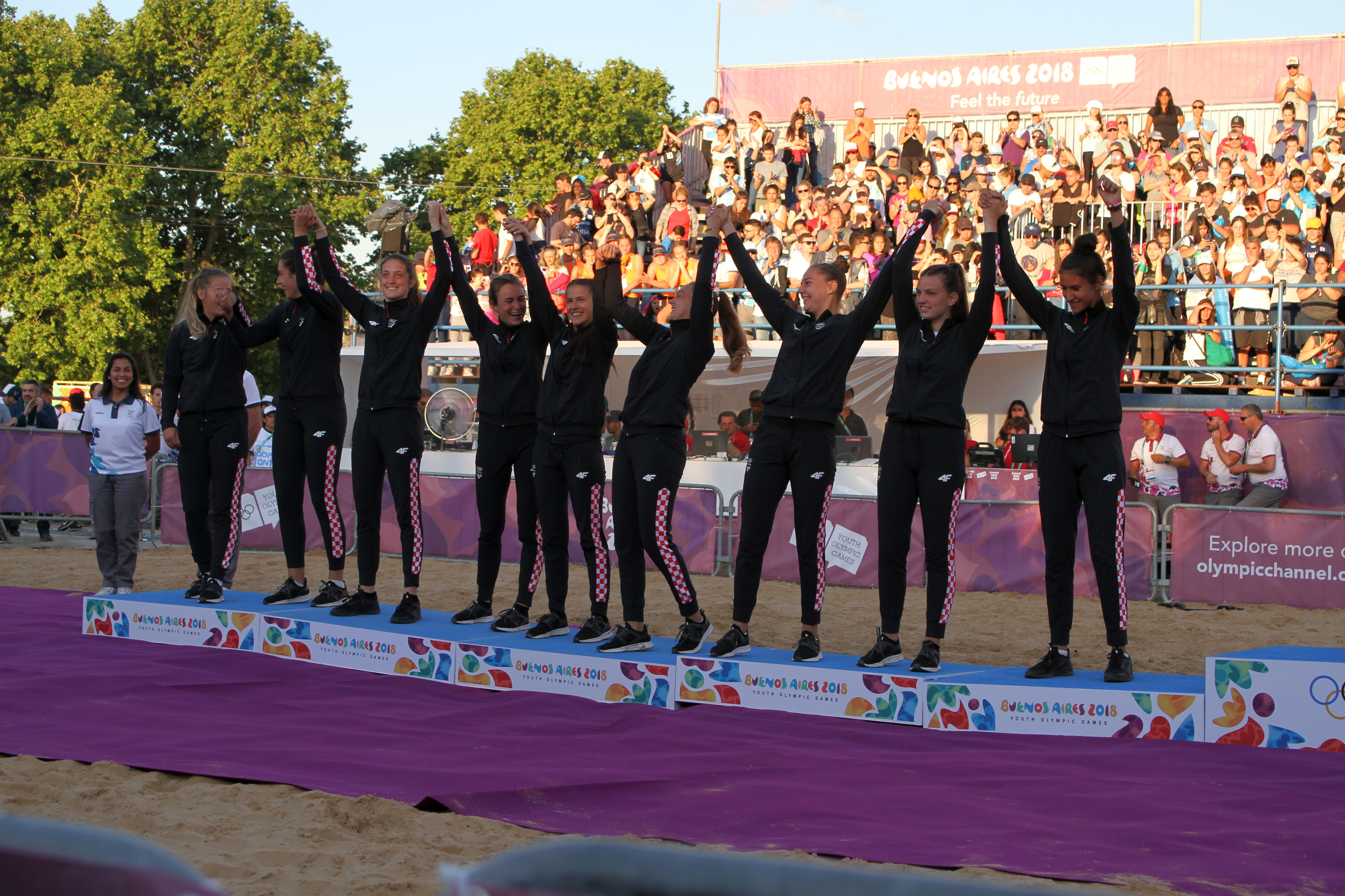 Beach handball at the 2018 Summer Youth Olympics in Buenos Aires at 13 October 2018 – Medal Ceremony Girls - Gold: Argentina, Silver: Croatia, Bronze: Hungary